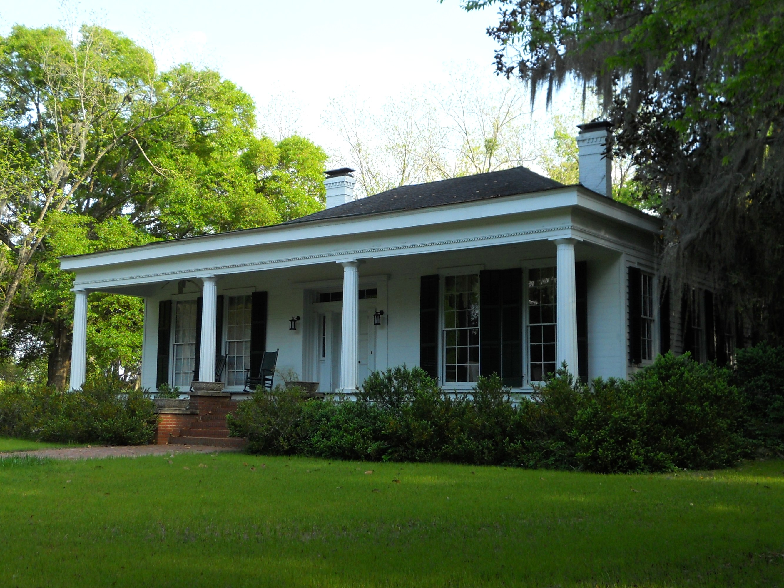 This is a photgraph of the Samuel R. Pitts Plantation located in Pittsview, AL.